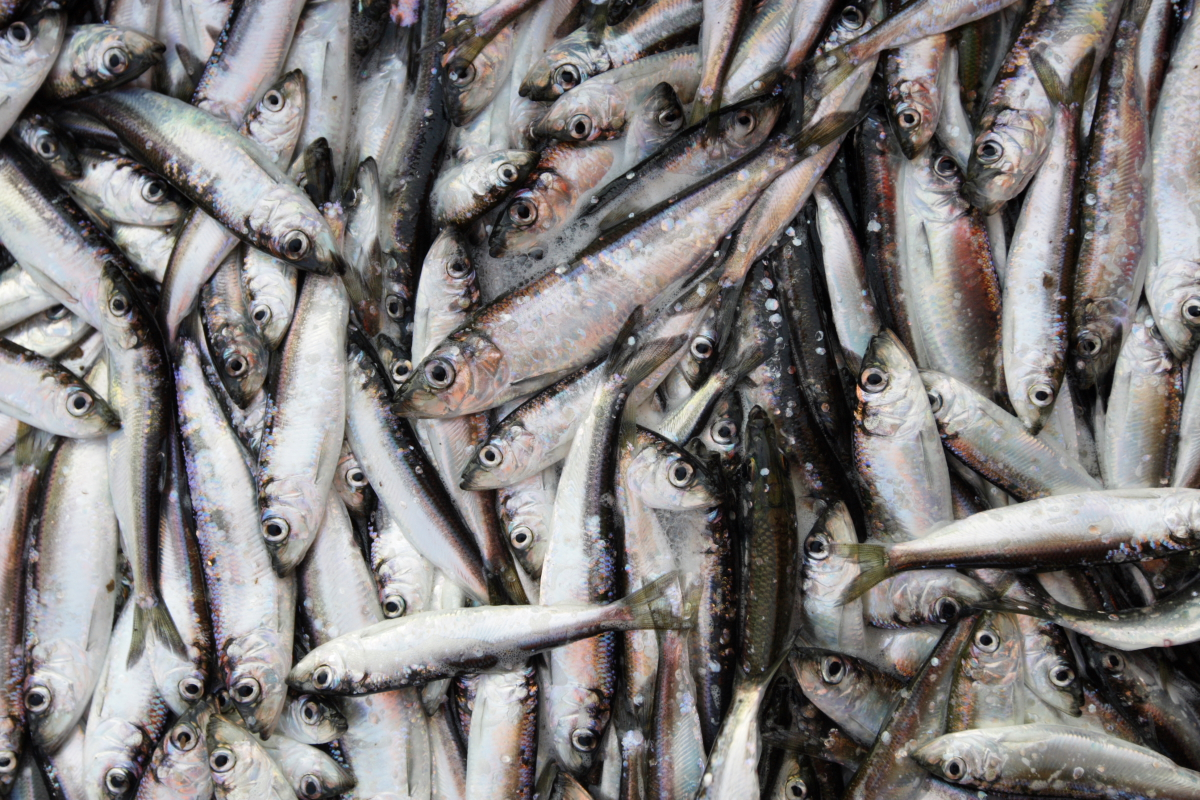 Clupea harengus membras